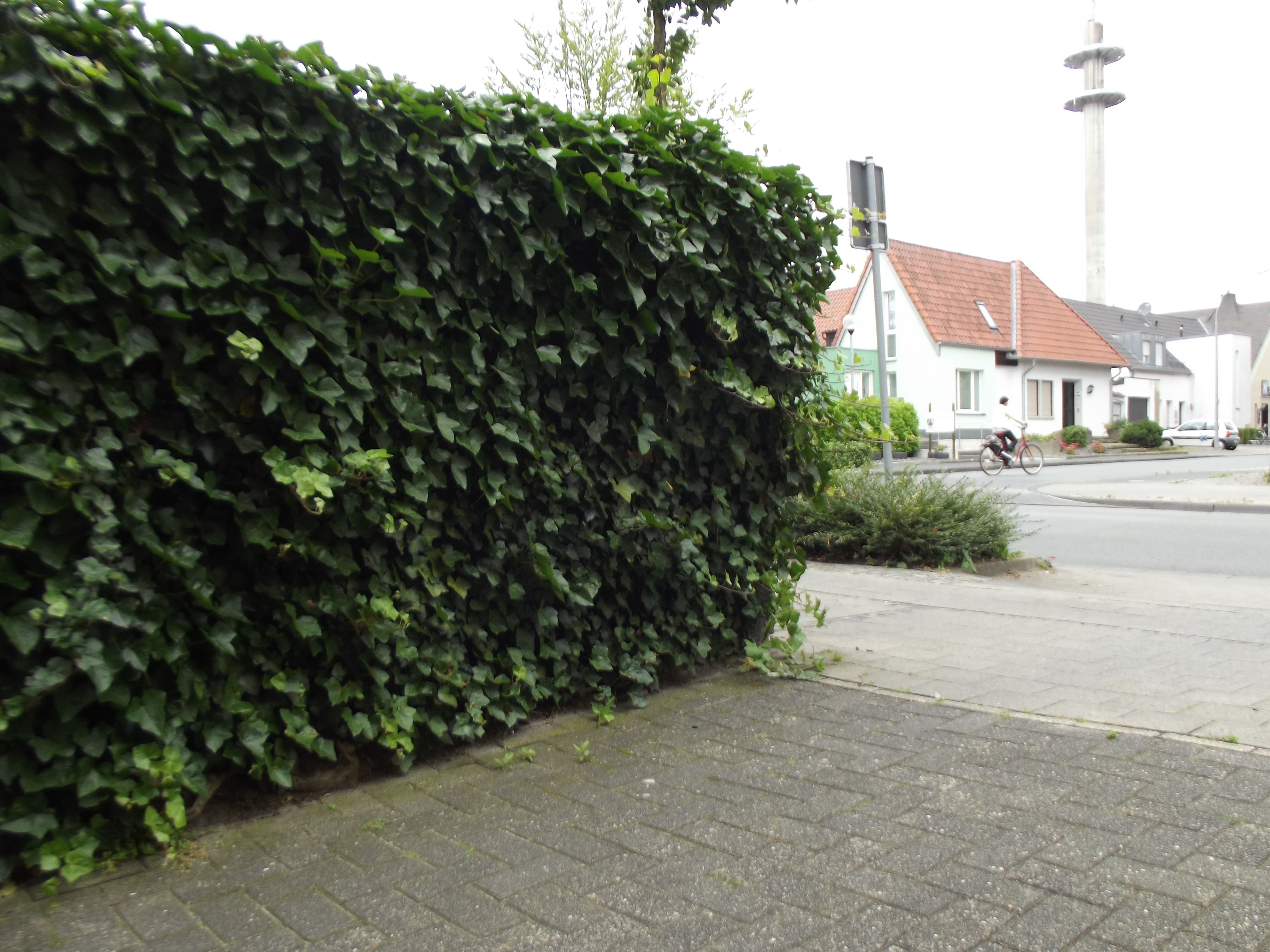 A cyclepath in Steinfurt, Germany, seen from a private street. The rampant climning plants make it impossible for residents to see approaching cyclists in time .